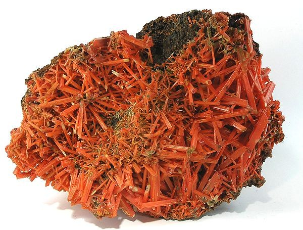 Crocoite Locality: Adelaide Mine (Adelaide Pty Mine; Adelaide Proprietary Mine), Dundas mineral field, Zeehan District, Tasmania, Australia (Locality at ) Size: 14.9 x 12.4 x 11.2 cm. A HUGE specimen of HUNDREDS of bright orangey-red crystals of crocoite, from the noted European Wein Collection, which was dispersed a couple of years back. There are crystals here to over 3.5 cm - and in person, the color is a LOT brighter; under case light it just pops out at you! You have probably noticed the scarcity of crocoite specimens on the market; there were never enough to go around, and their sensational color and sharpness of crystals has always made them a collector favorite.